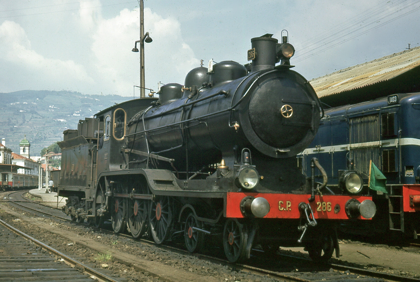 CP 4-6-0 No. 286 at Regua station, August 1970